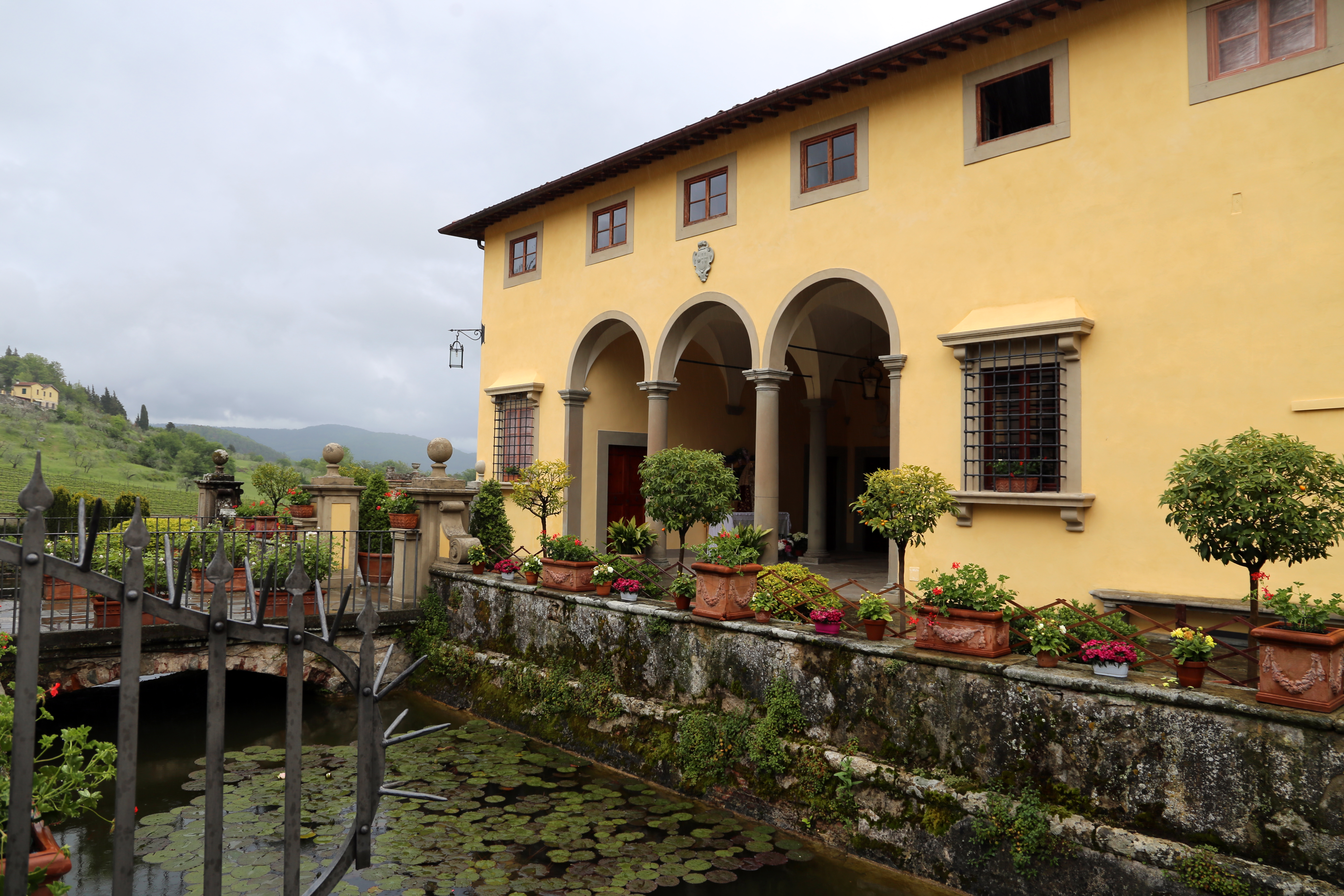 Villa Martelli di Gricigliano